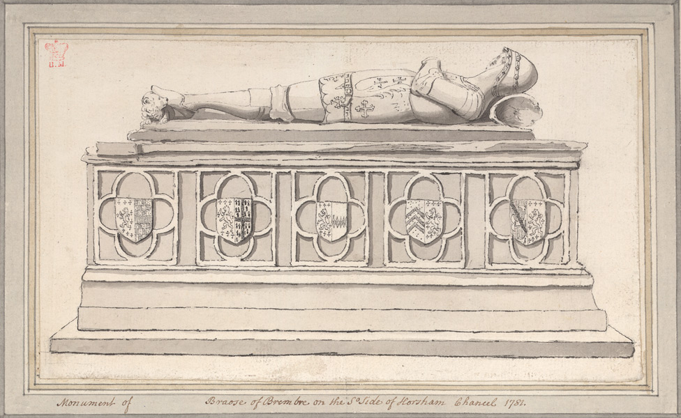 Monument against the south wall of the chancel of St Mary's parish church, Horsham, West Sussex to Sir Thomas de Braose of Bramber (died 1395). His effigy shows him in full armour, his head resting on a helm. His tomb chest is decorated with quatrefoils and heraldic escutcheons.